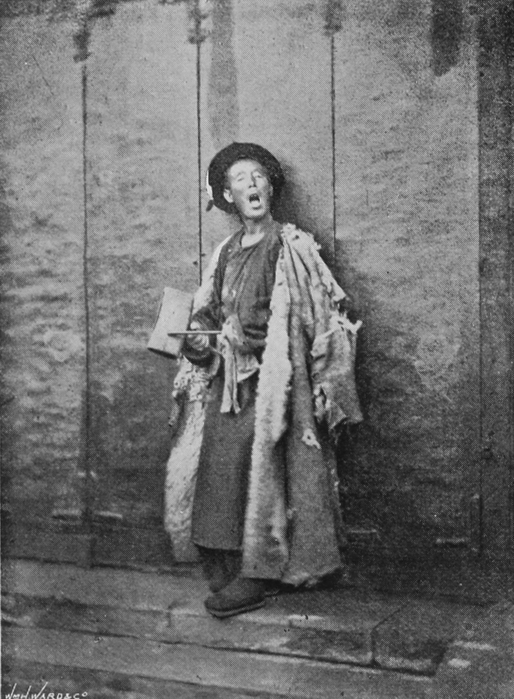 photo from Through China with a camera